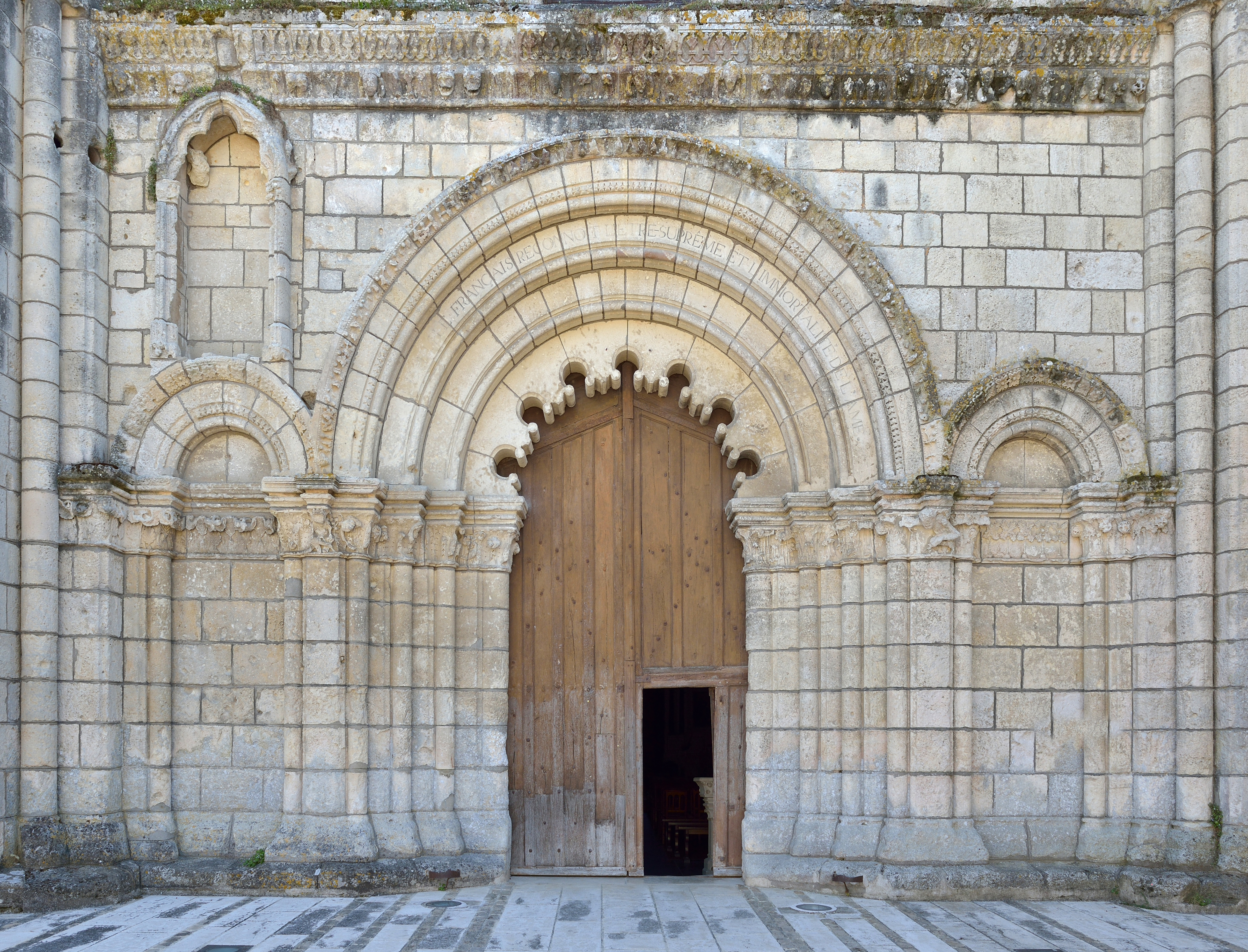 "Saint-Étienne" Abbey in Bassac in France - detail of portals